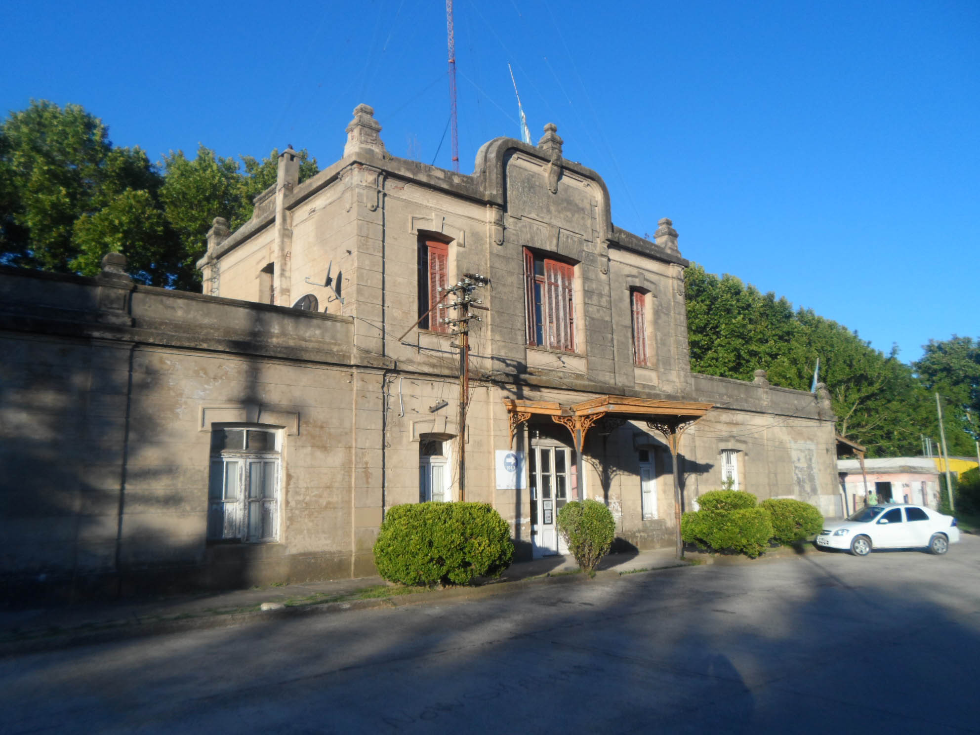 View of the Mercedes railway station (Buenos Aires Province) from the calle 40. The building is disused since the train close its services in 1977 but it is still in good conditions.